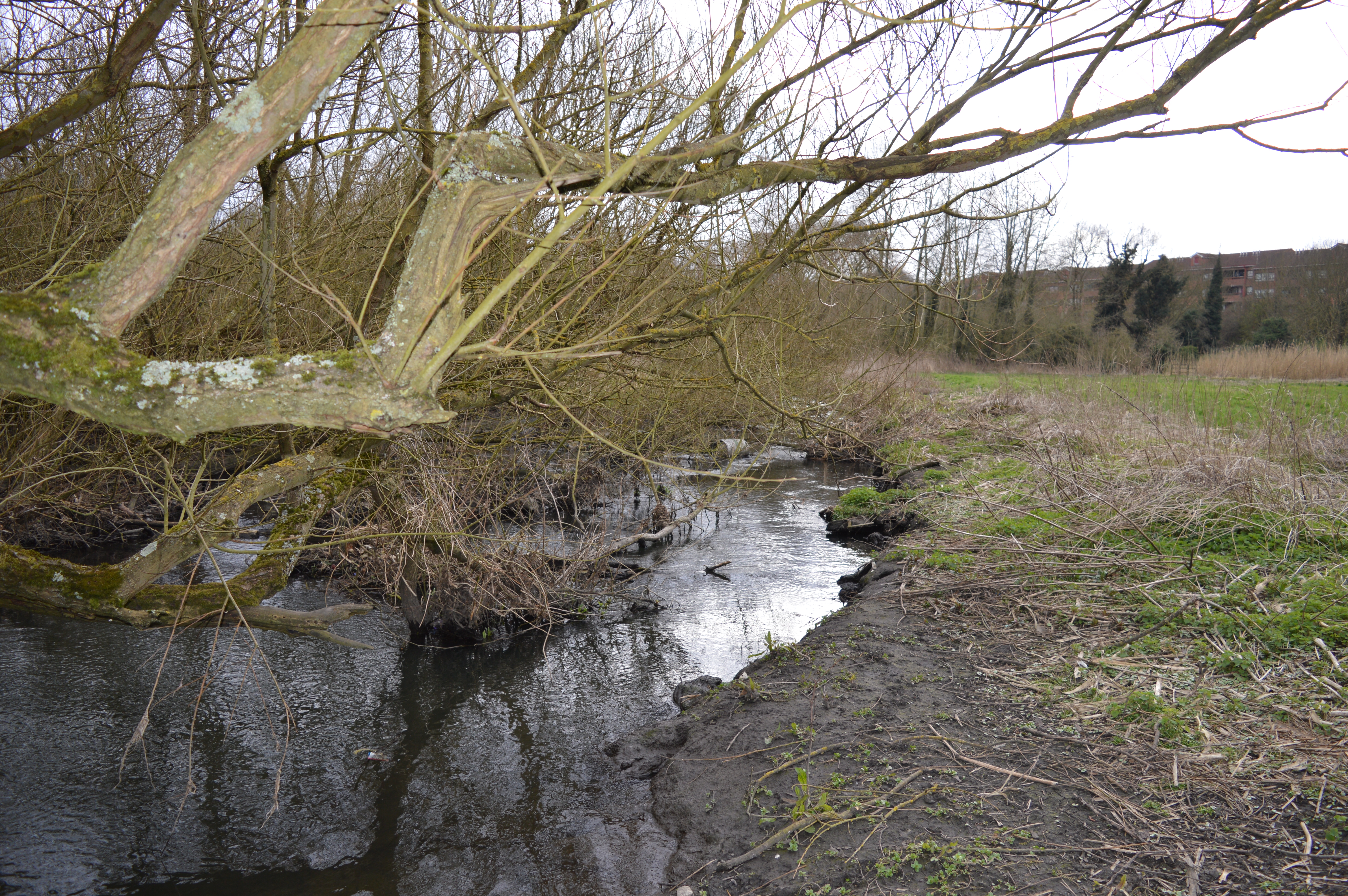 The River Colne running along the southern boundary of The Lairage Land, a Local Nature Reserve in Watford, Hertfordshire